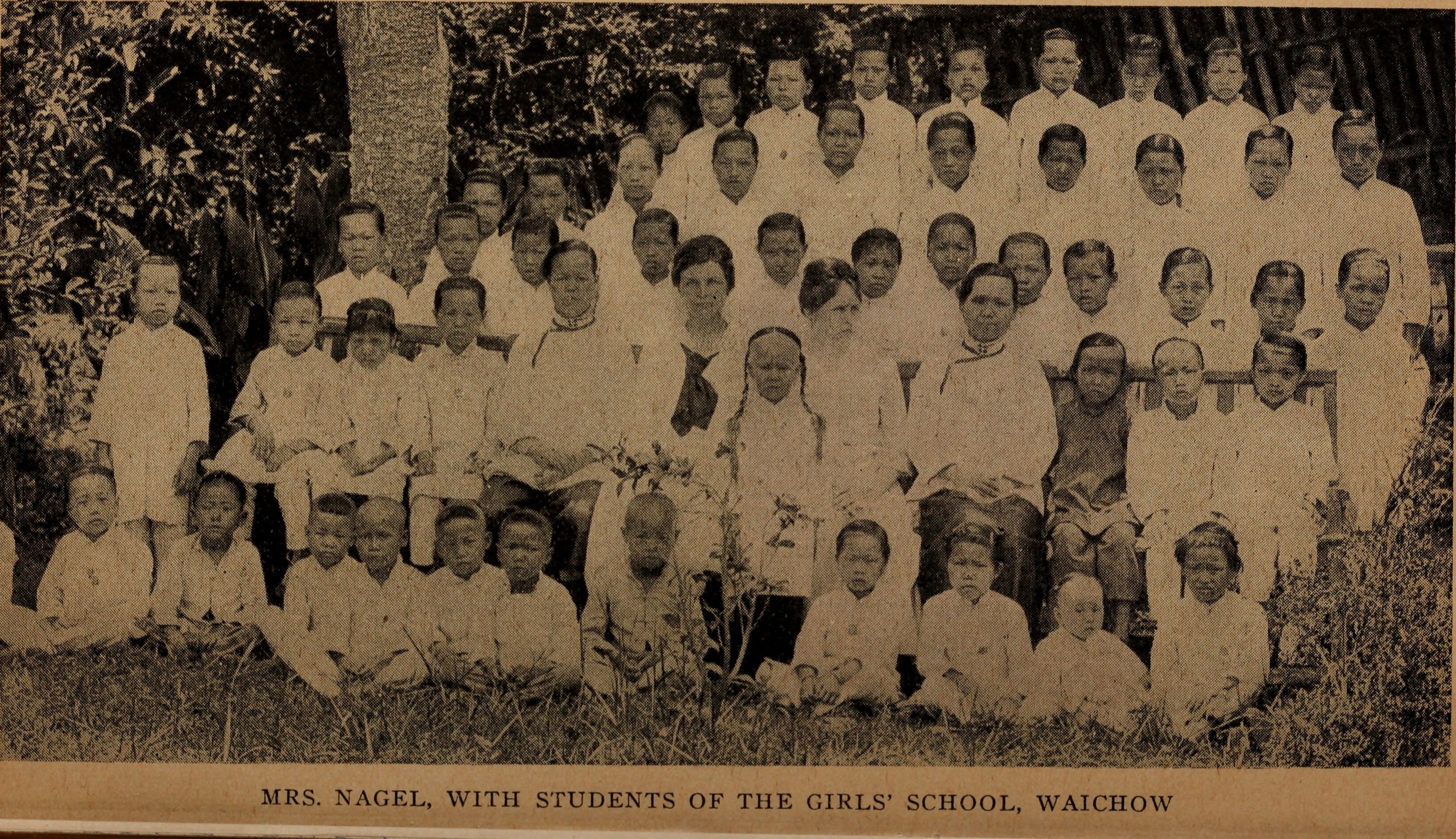 Title: At home with the Hakkas in South China Year: 1921 (1920s) Authors: Nagel, Sherman A. (from old catalog) Subjects: Publisher: Mountain View, Cal., Kansas City, Mo. (etc.) Pacific press publishing association Text Appearing Before Image: By Sherman A. Nagel Number Four of the Wide World Series MCMXXI PRINTED IN U. S. A. PACIFIC PRESS PUBLISHING ASSOCIATION MOUNTAIN VIEW, CALIFORNIA Kansas City, Missouri Portland, Oregon St. Paul, Minnesota Cristobal, Canal Zone D ^nio fit COPYRIGHT 1921 Pacific Press Publishing Association ^C!.A653397 JAN -3 1922 CONTENTS A Foreword ........... 5 On Shipboard 7 First Impressions 14 Geography 21 Home Life 26 Chinas Language 34 The Religions of China 39 Government 45 Traveling in China 53 Our Mission Work 62 Text Appearing After Image: A Foreword Mrs. Nagel and I were asked to go to China in 1909. We havegiven twelve of the best years of our life in service to the Chinesepeople. A few minutes ago I finished my birthday dinner. I stillfeel and, some say, I act like a boy, though I am thirty-four. Myown children — Florence, aged ten, and Sherman, aged six — withElder J. P. Andersons two little girls, Helen and Hazel, have justiven me the usual birthday whipping. When I was home on furlough five years ago, I visited numerouschurches in the Western States, and spoke on China from Spokaneto San Diego. By invitation, I talked also to many boys and girlsin both public and church schools. When I began these lectures, Iwas at a loss to know what people wished to learn about this greatEastern country; so I followed the plan of permitting all who wishedtb do so to ask all the questions they could think of. I answered allI was able; and in this way, I soon found out what boys and girlswished to learn about China. In the fol